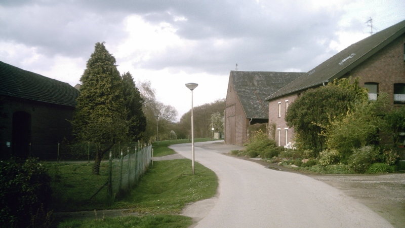 Bötzlöh, Viersen, Germany